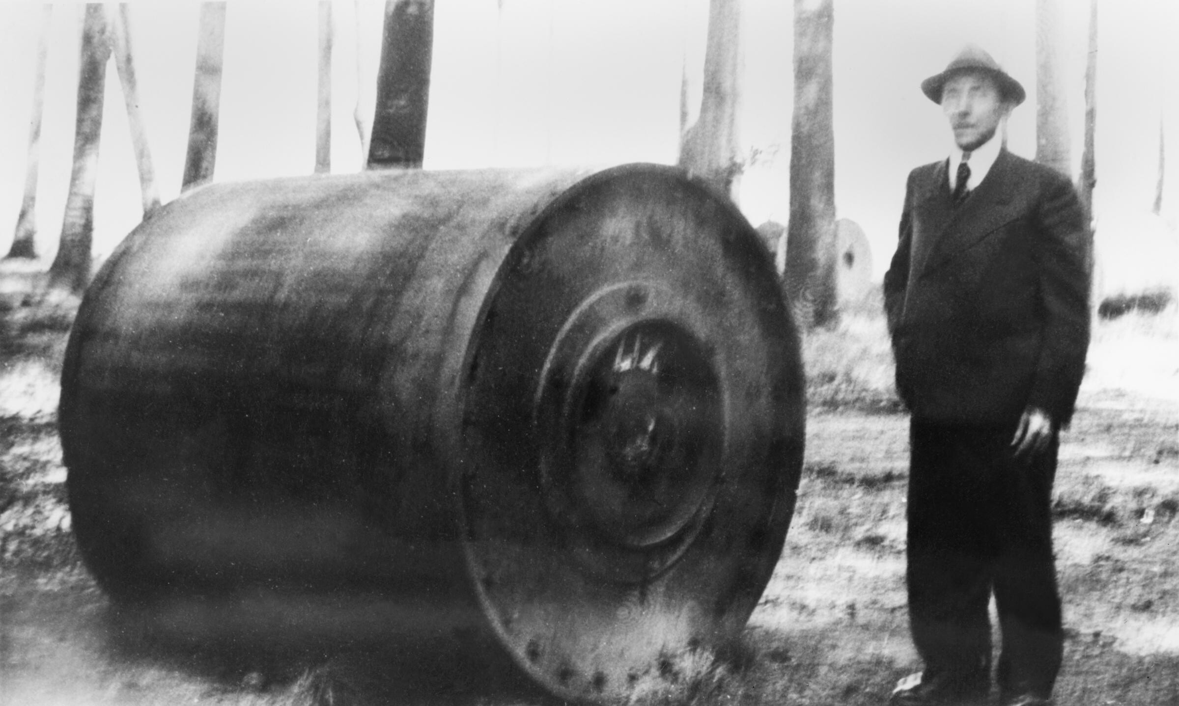 A German official stands next to an unexploded, British Upkeep bouncing bomb. The weapon was recovered from the wreckage of Avro Lancaster ED927/G 'AJ-E', piloted by Flt Lt Barlow. The aircraft crashed at 2350 hours on 16 May 1943 after striking power lines 5km east of Rees, Germany. All on board were killed.